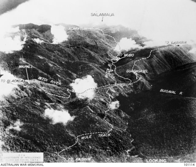 Map of the Guadagasal-Mubo Area, including Lababia Ridge